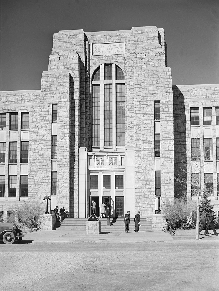 Engineering Hall, Wyoming University. Laramie, Wyoming